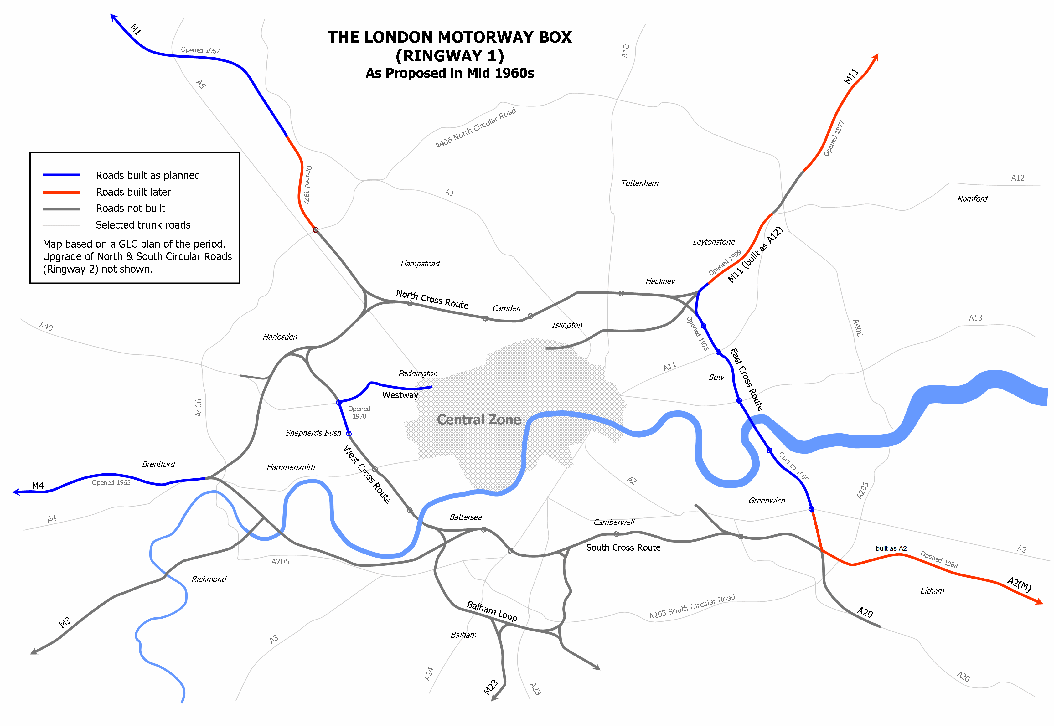 London Motorway Box scheme from the mid 1960s showing roads planned for Ringway 1, indicating those roads that were built.DavidCane 14:28, 15 August 2006 (UTC)